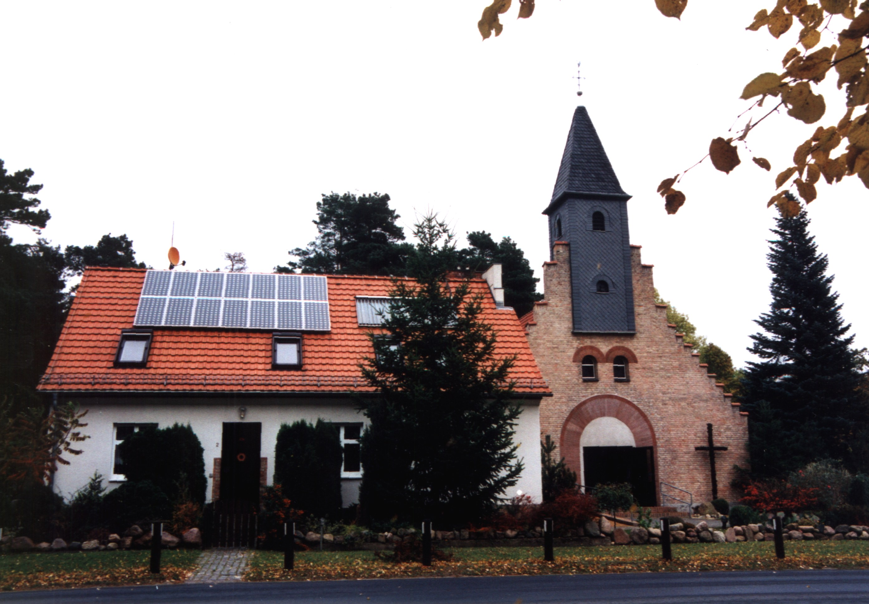 Catholic church St. Konrad with manse in Wandlitzsee, WAndlitz, BRandenburg, Germany.